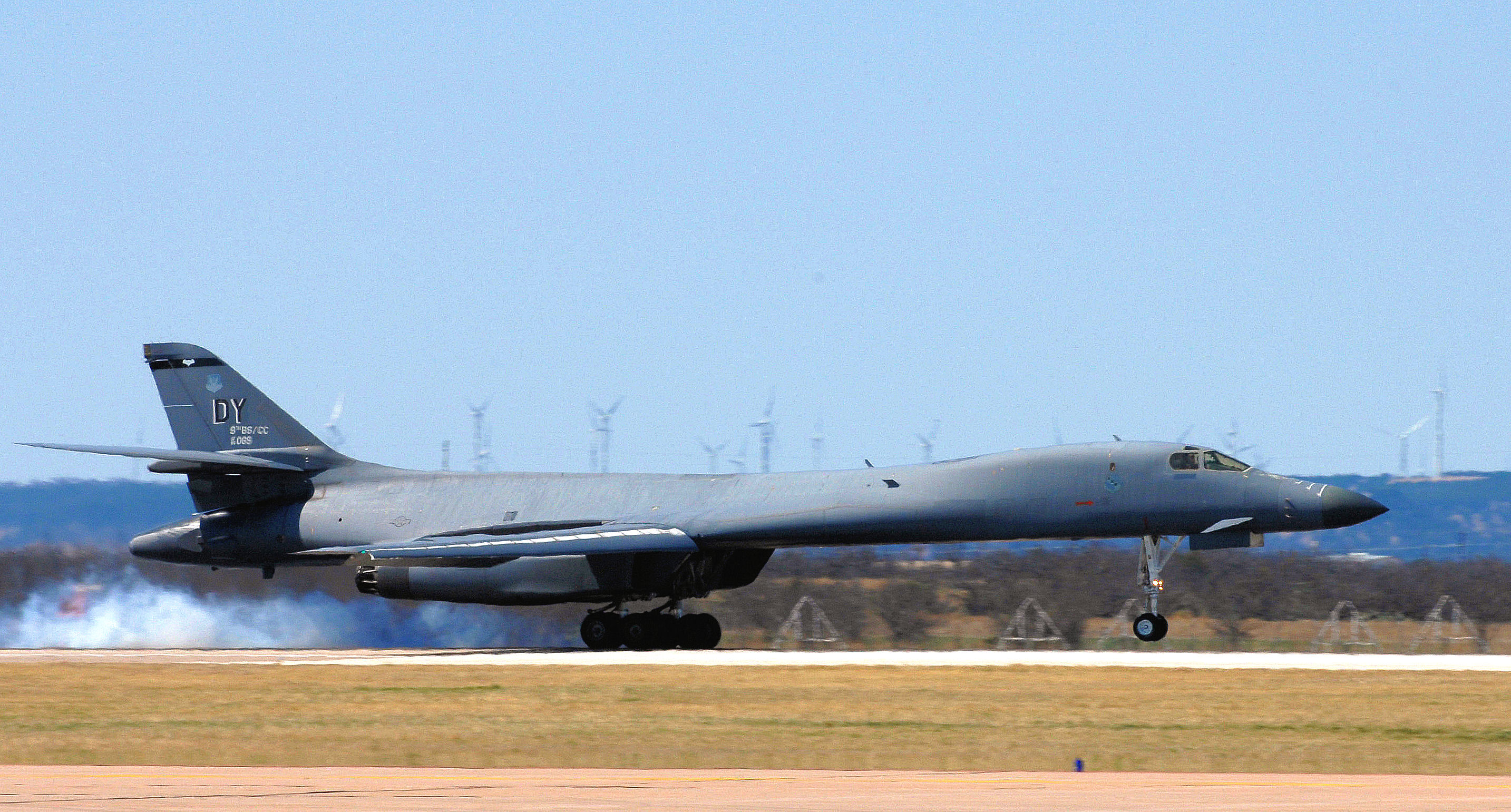 DYESS AIR FORCE BASE, Texas – A B-1 Bomber was the first Air Force jet to fly at supersonic speeds using a 50/50 blend of synthetic and petroleum fuel. The supersonic flight occured over the White Sands Missile Range airspace in south-central New Mexico but took off and landed at Dyess March 19, 2008. (U.S. Air Force photo/Senior Airman Courtney Richardson)